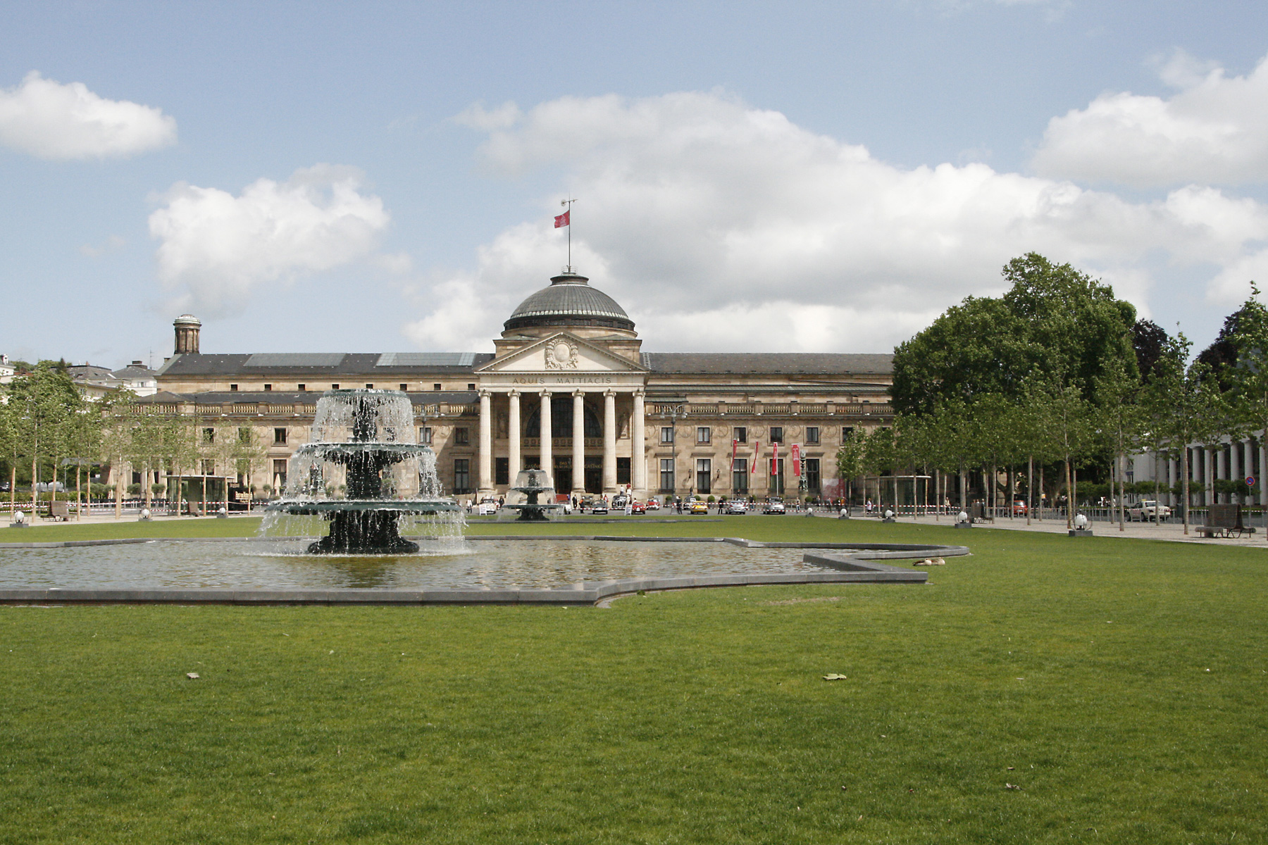 Kurhaus Wiesbaden with bowling green in the foreground